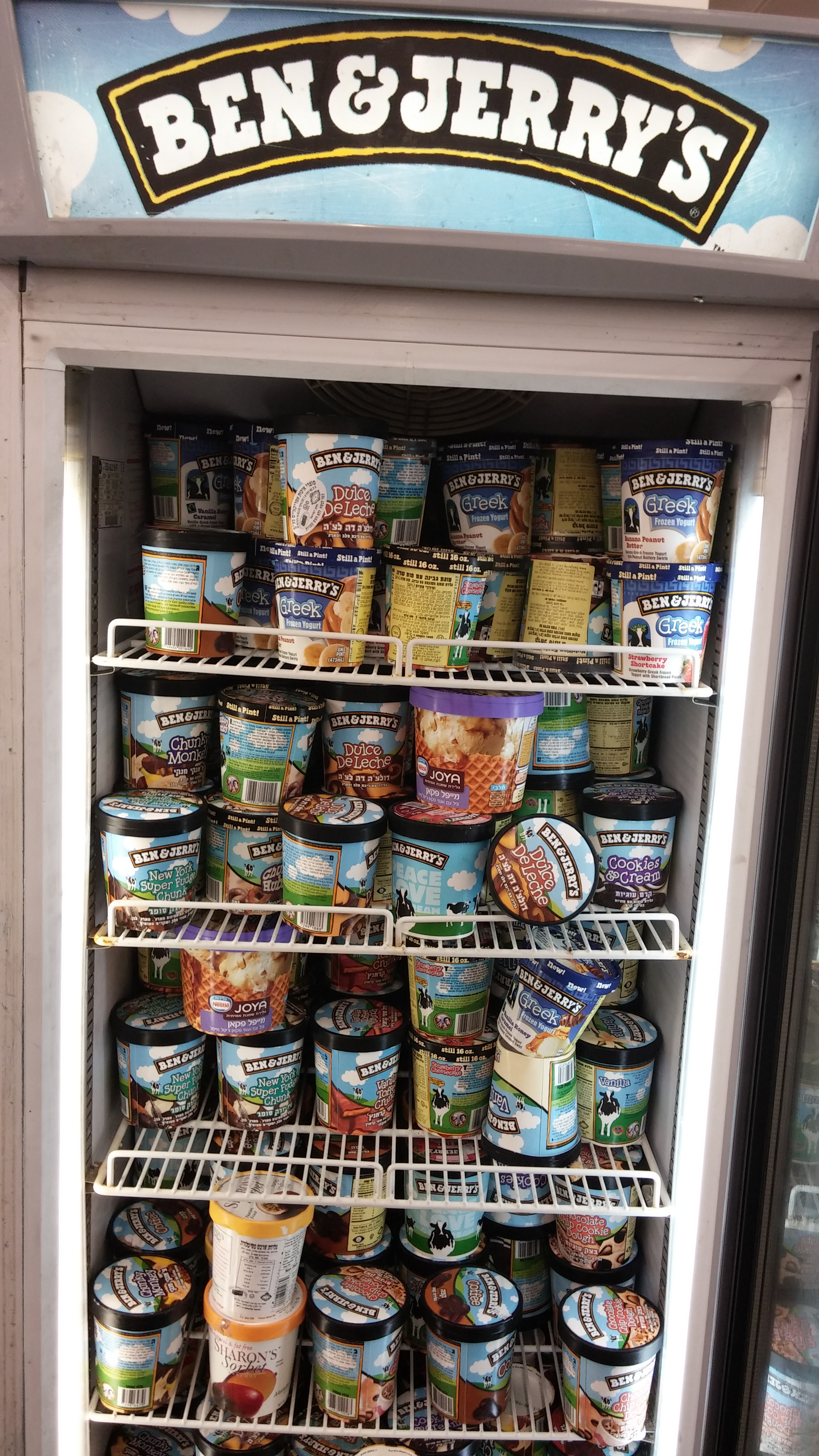 Ben & Jerry's refrigerator freezer in Israeli shop.